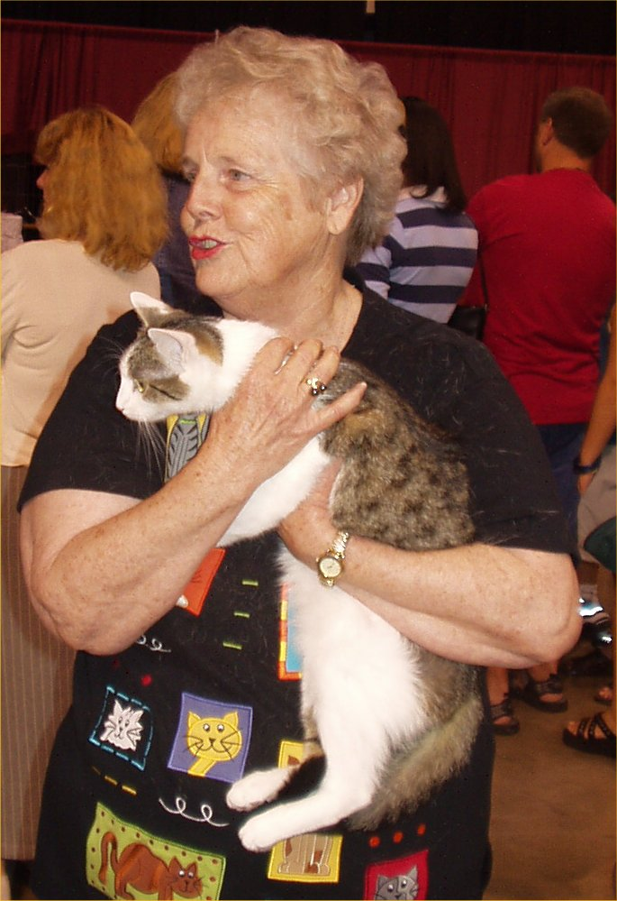 CC the first cloned cat, shown here at age 2 in 2003 with her owner in College Station Texas.